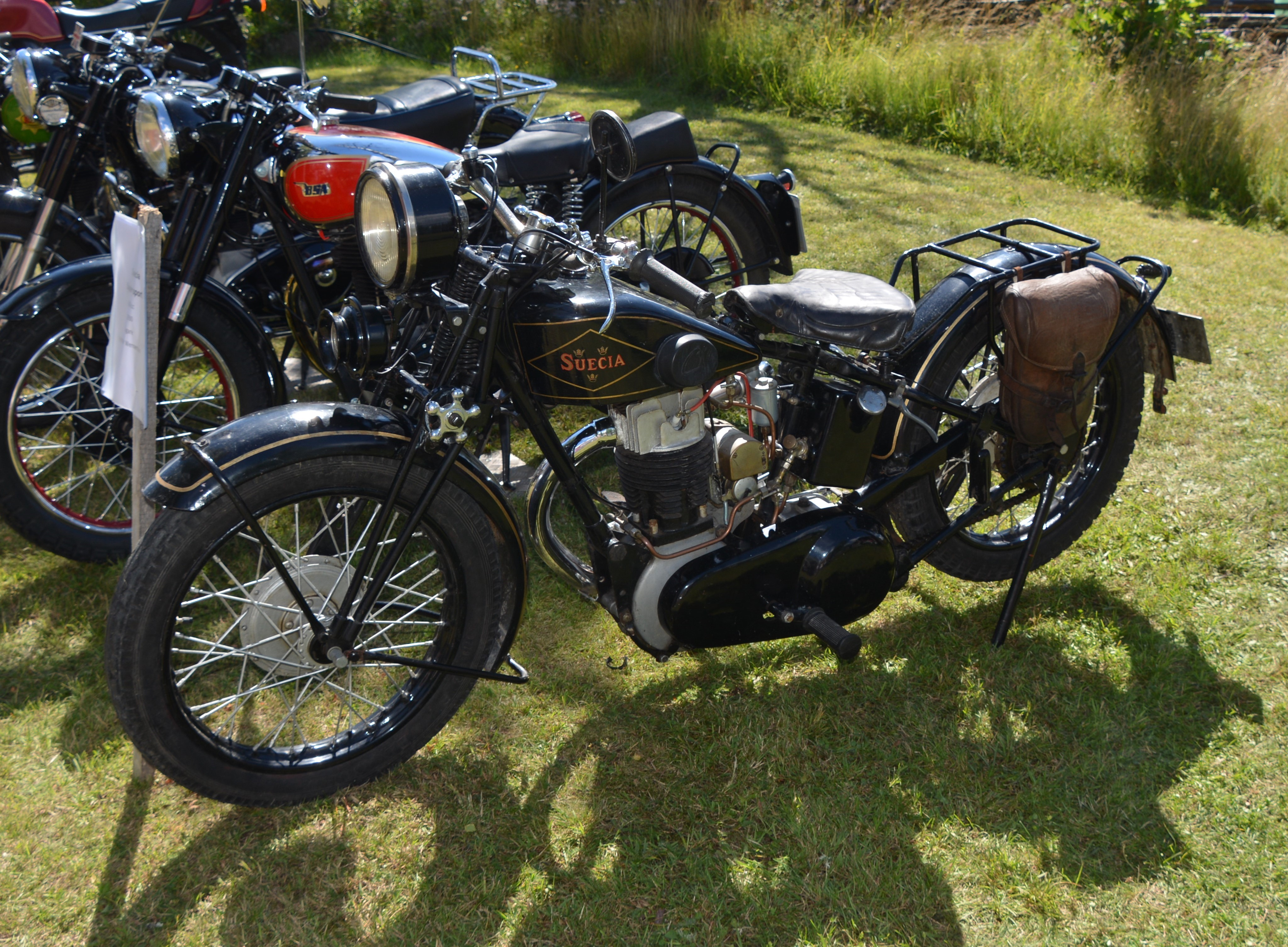 Suecia Super Sport motor, 600cc, 1930. Visad på Motorns dag i Målilla 2017.